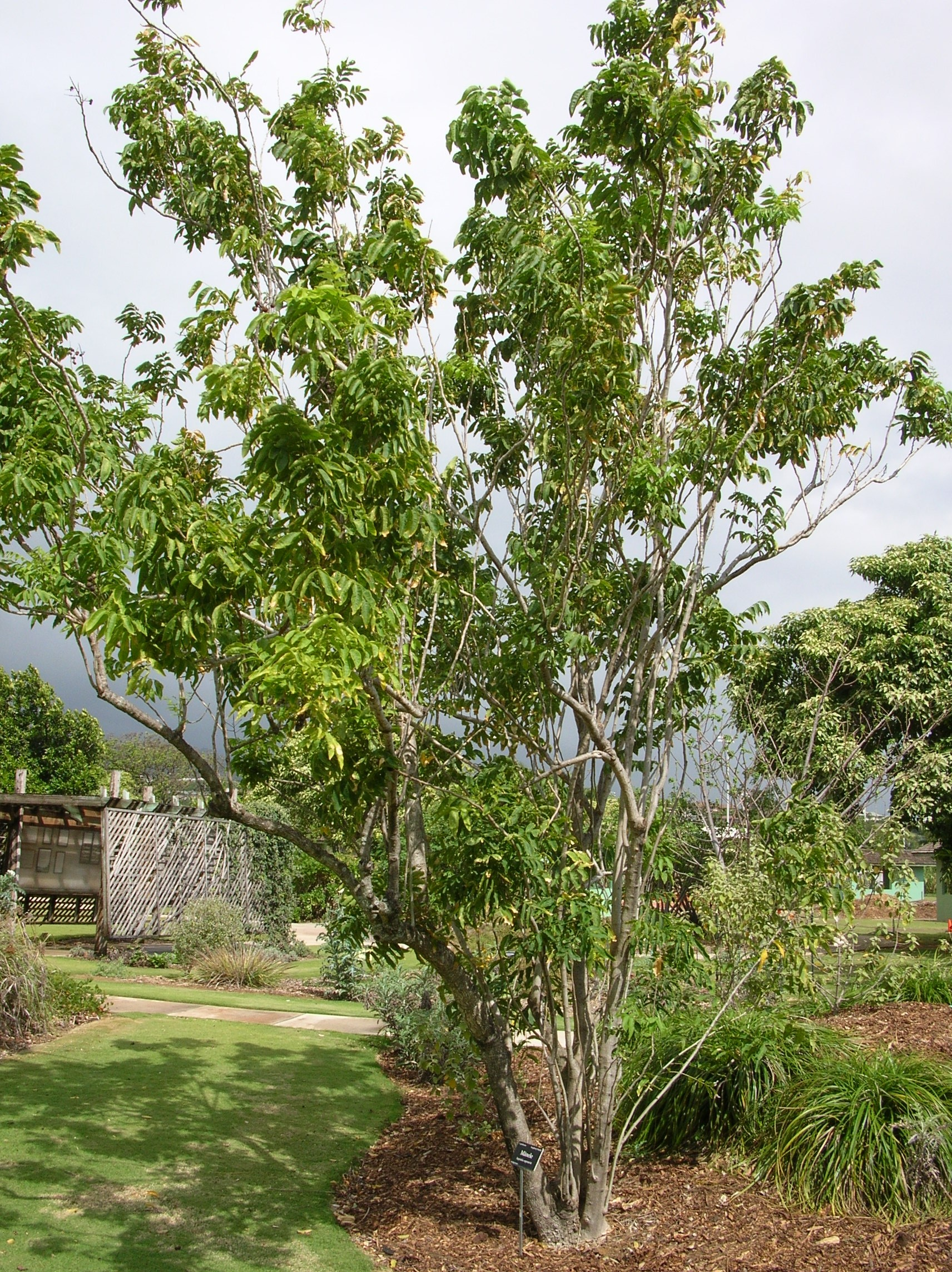 Sapindus saponaria (habit). Location: Maui, Maui Nui Botanical Garden